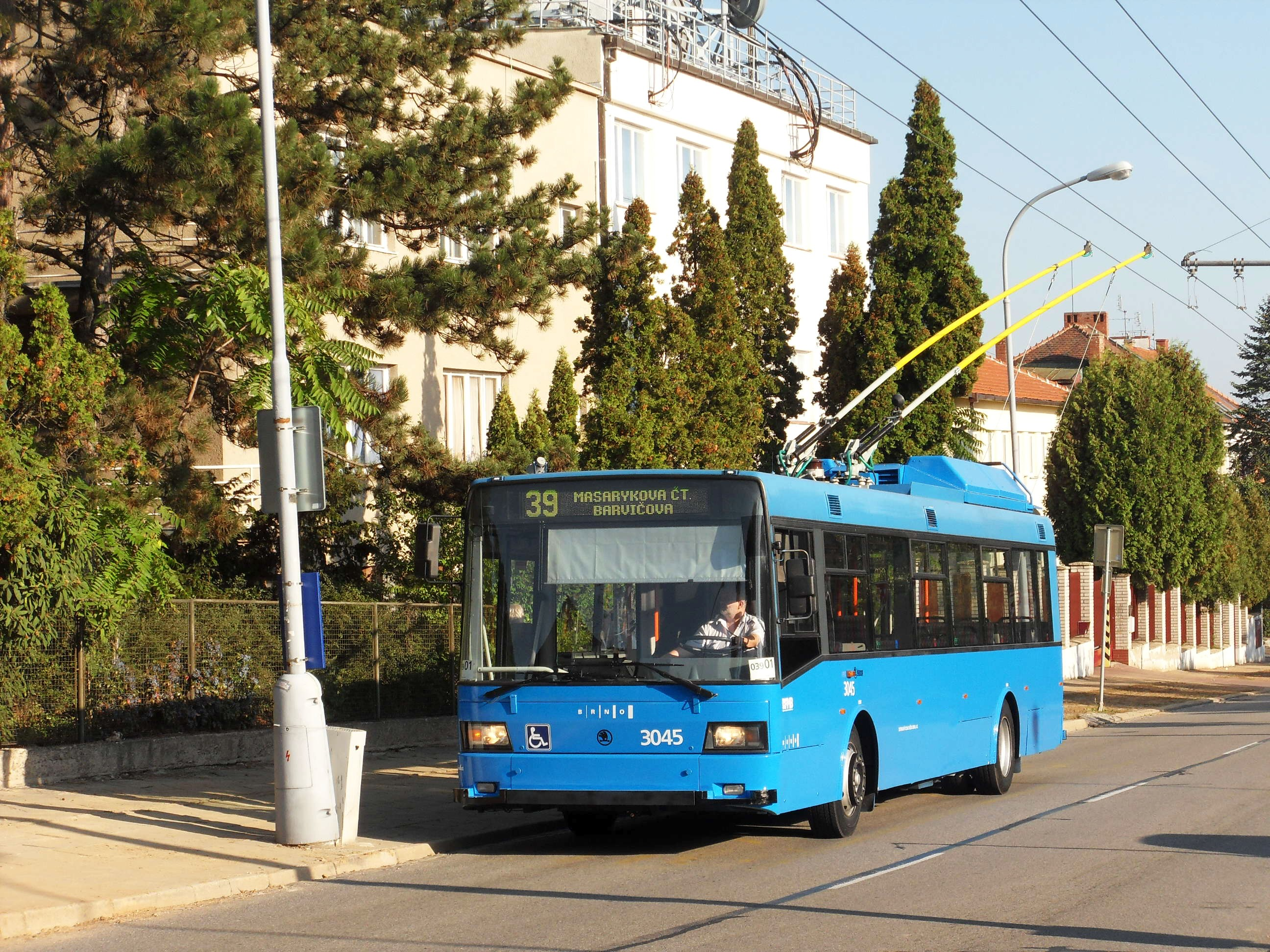 Škoda 21Tr trolleybus No. 3045 of Dopravní podnik města Brna, Brno, Czech Republic